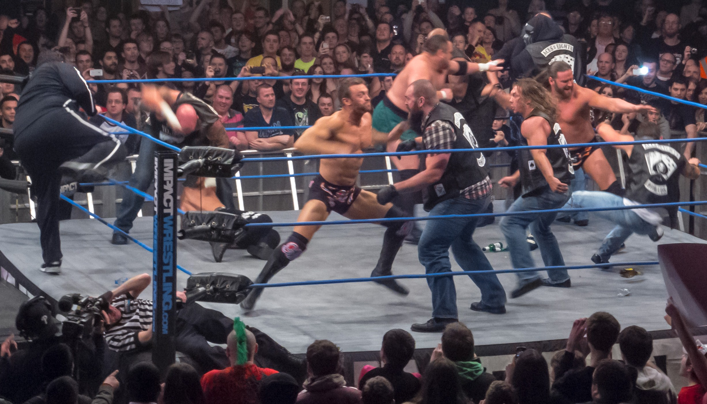 Aces & Eights brawling with Magnus, Samoa Joe, James Storm and Joseph Park at the Impact! TV Tapings in Wembley, England on January 26, 2013.